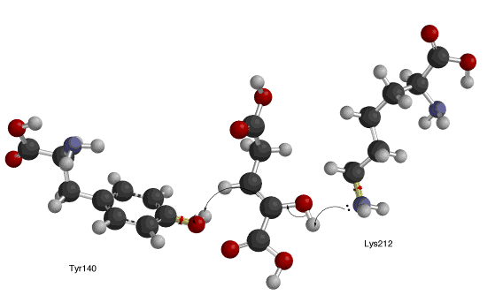 The protonation of Carbon 3 and the loss of a double bond. Part of Isocitrate dehydrogenase in citric acid cycle.